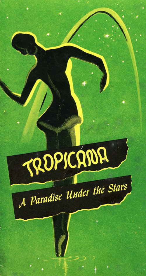 Tropicana Logo. Havana, Cuba